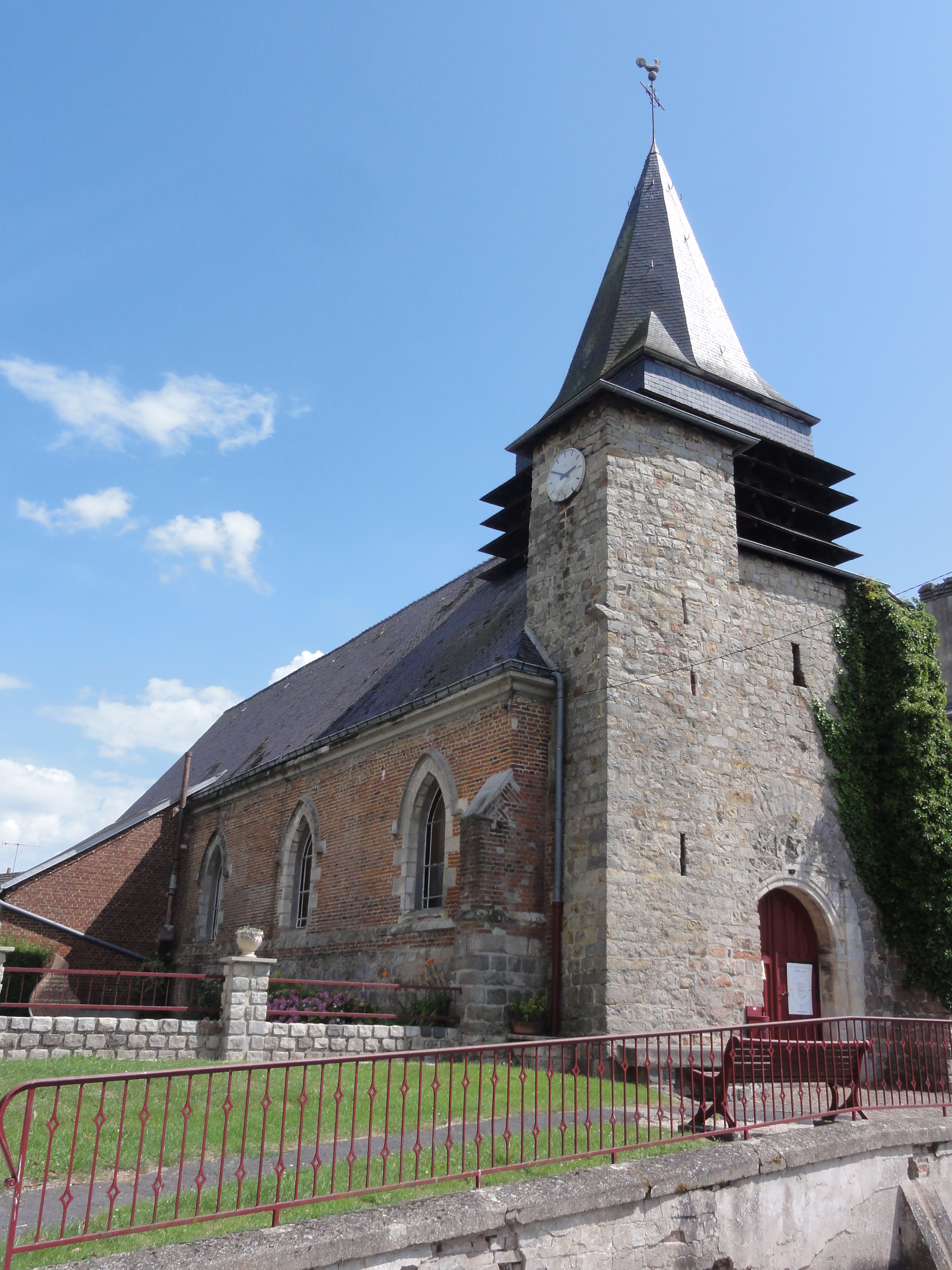 Ognes (Aisne) église